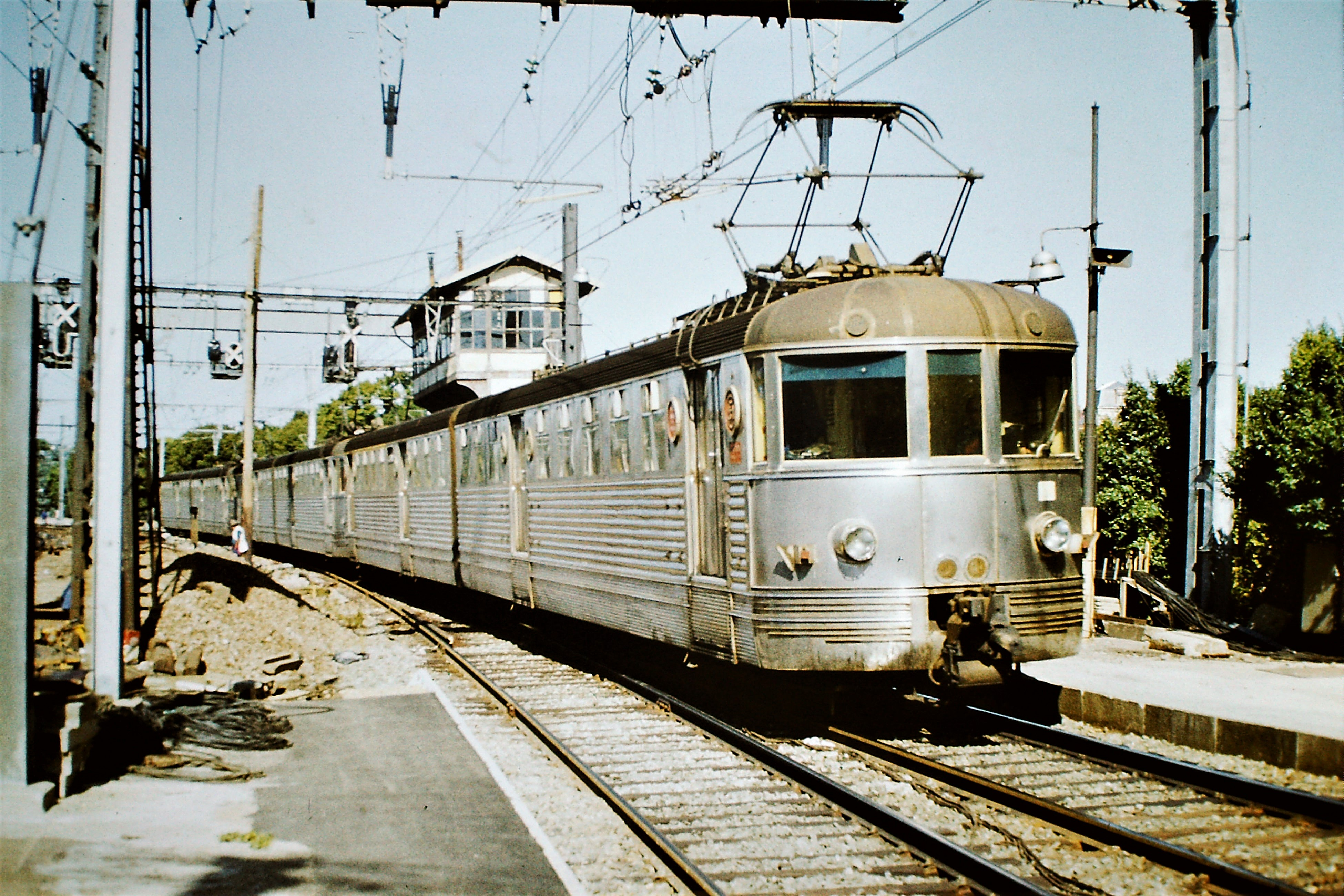 An unidentied SNCF (ex-Etat) 1.5k V DC overhead Cavel et Fouche/Jeumont-Schneider Z3700 2-car emu of 1938 vintage of Budd stainless steel construction at Chatres, 08/78. Scanned slide taken with an Canon AE-1 Program.